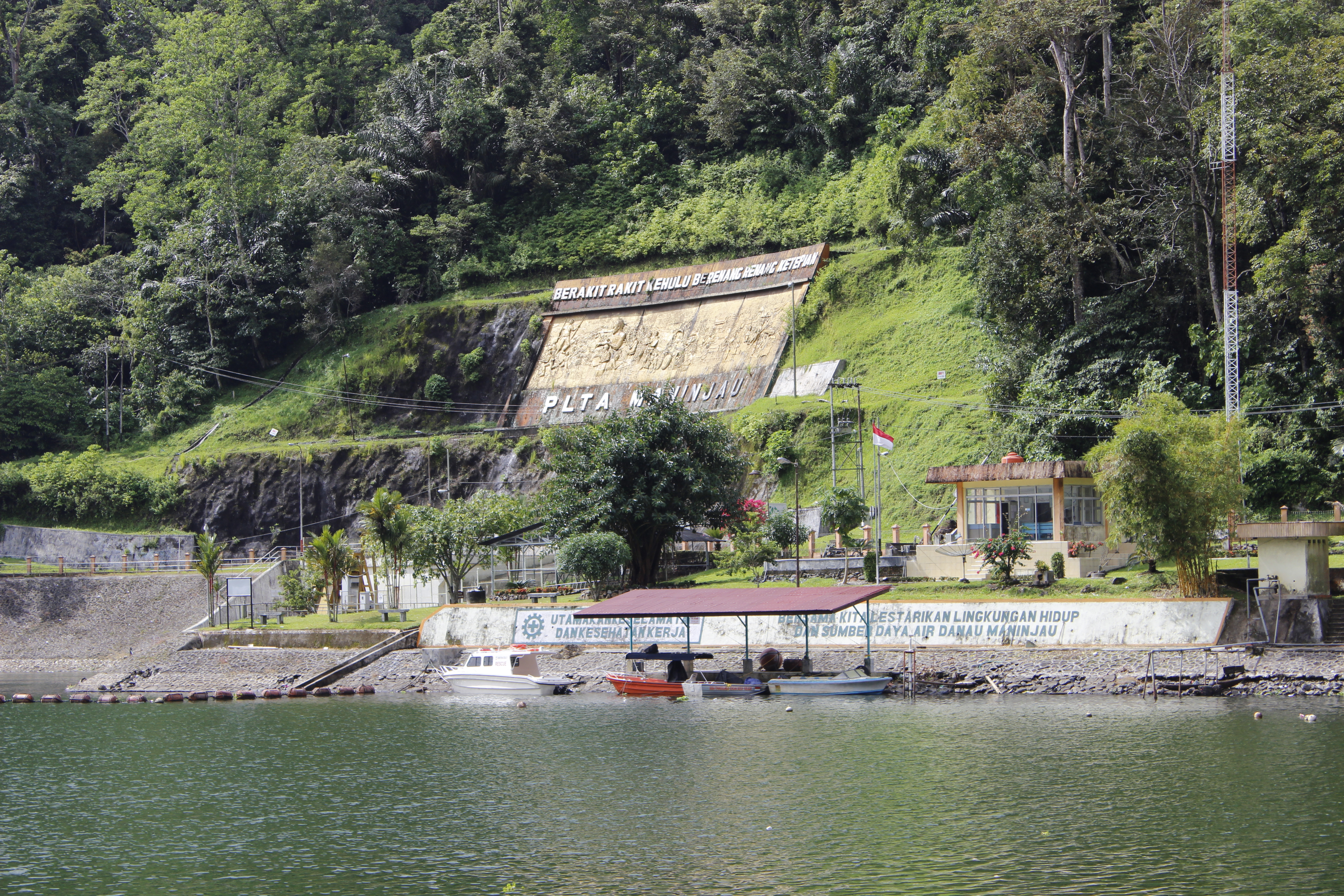 Maninjau hydropower plant seen from Muko-Muko Tourist Park.